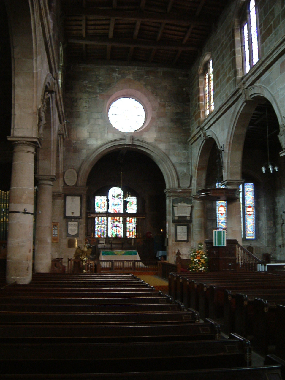 Inside the nave of Holy Trinity parish church, Berwick upon Tweed, Northumberland, looking east to the 19th-century chancel